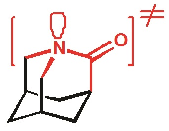 Twisted amide